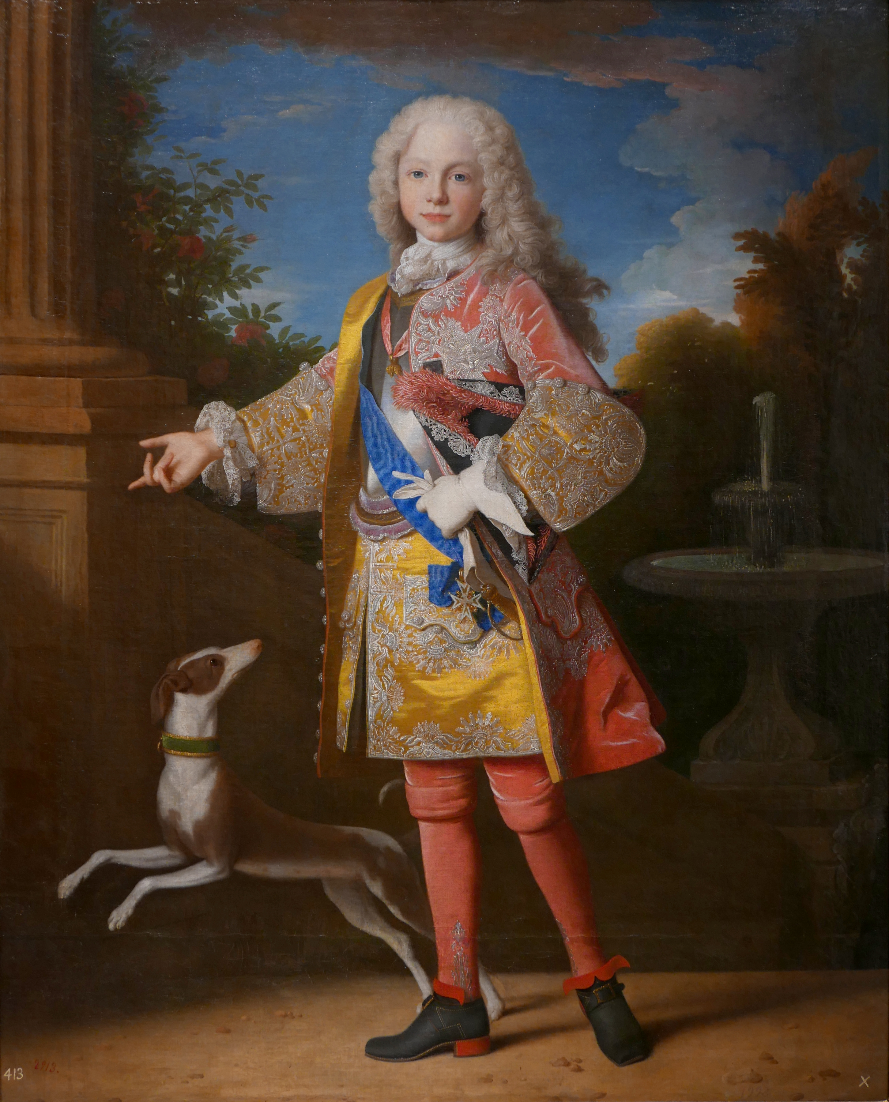 Montpellier (Hérault, Languedoc, Occitanie), Musée Fabre, temporary exhibition, unfortunately interrupted by the covid 19 pandemic then extended until June 28, 2020, "Jean Ranc, a native of Montpellier at the court of Kings". The infant Ferdinand around 1723, 10 years old, son of Philippe V and Maria Luisa of Savoy, his first wife, and who will reign under the name of Ferdinand VI from 1746 to 1759.